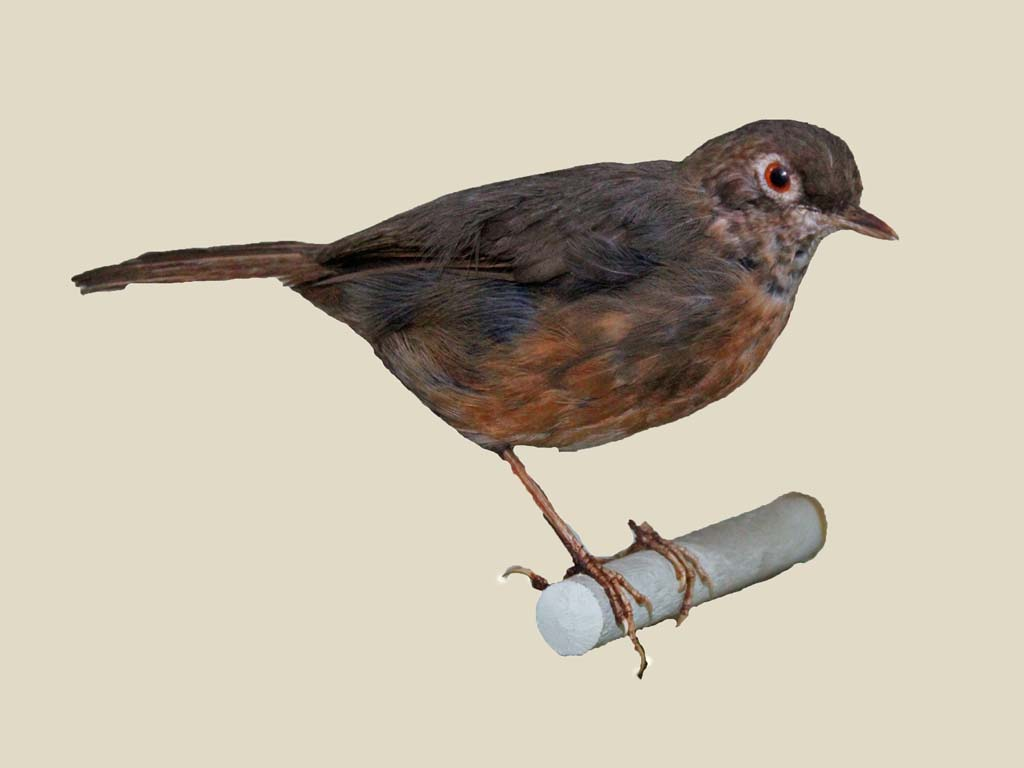 Spot-throat (Modulatrix stictigula). Photograph of a specimen at Nairobi National Museum in Nairobi, Kenya.